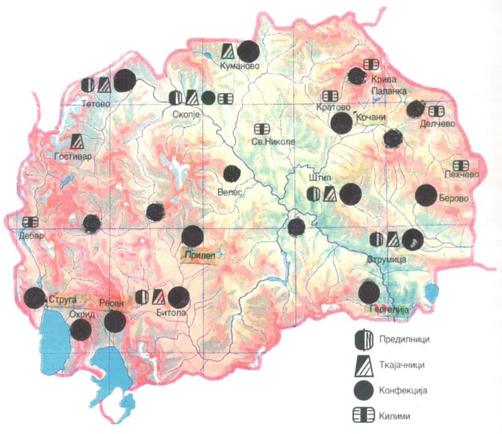 Geographic distribution of the textile industry in Macedonia